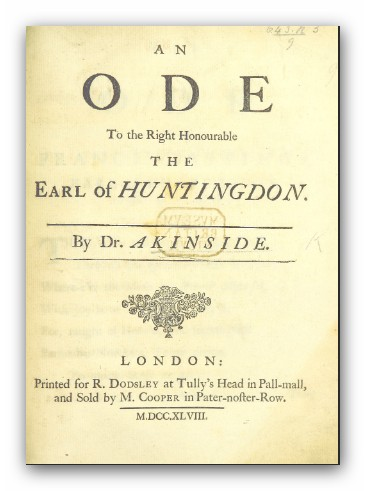 Page of An Ode to the Right Honourable Earl of Huntingdon